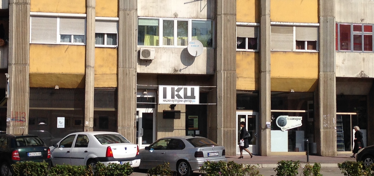 Gallery Cultural Center Nis